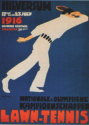 't Melkhuisje, poster for tennis tournament in Hilversum, 1916